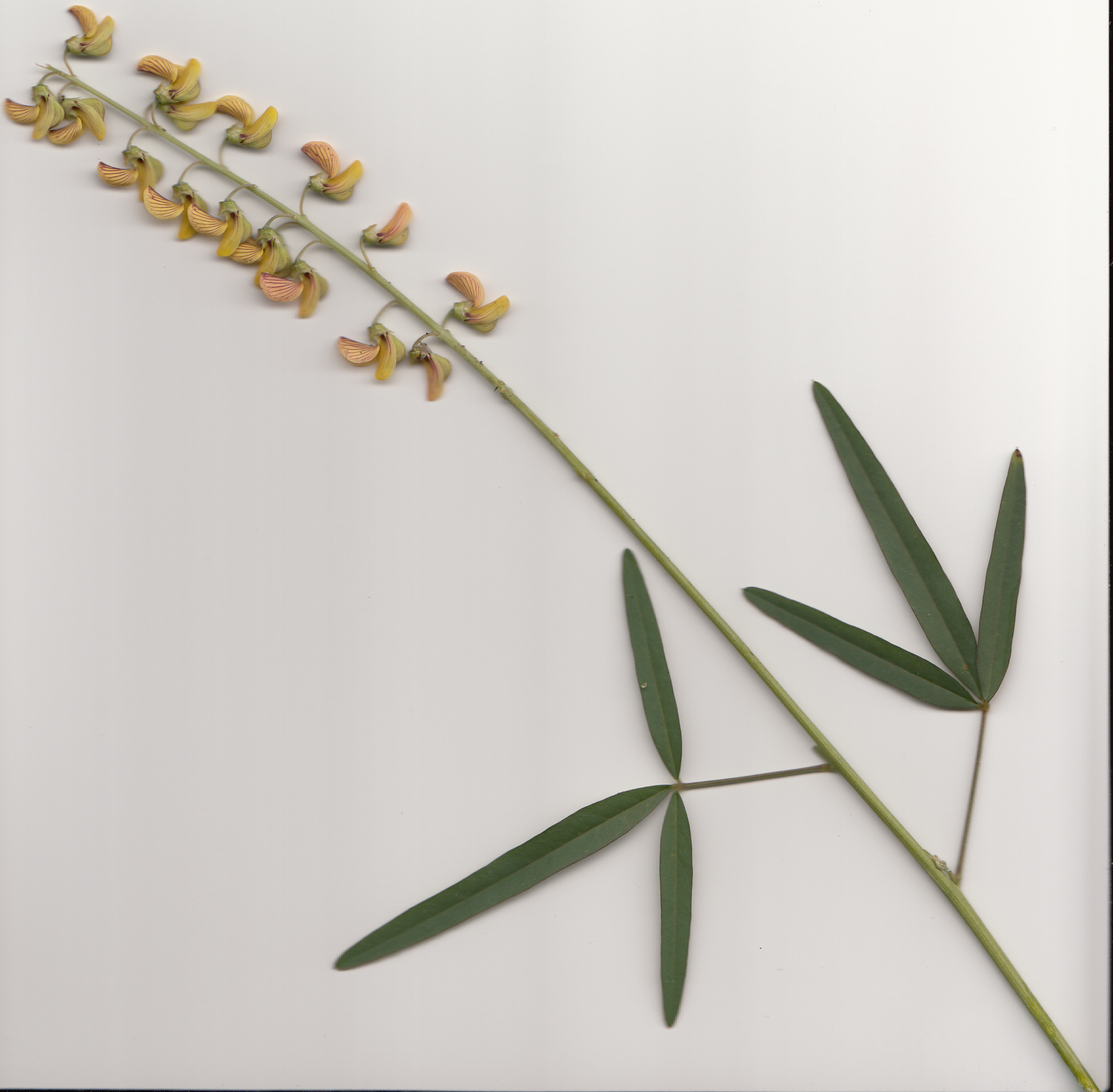 Flowerheads are long racemes with about 40 pealike flowers. Petals are yellow with brown veins. Leaves have 3 leaflets, each nearly stalkless, linear to lanceolate, hairless above, sparsely hairy below and 3-4 cm long.